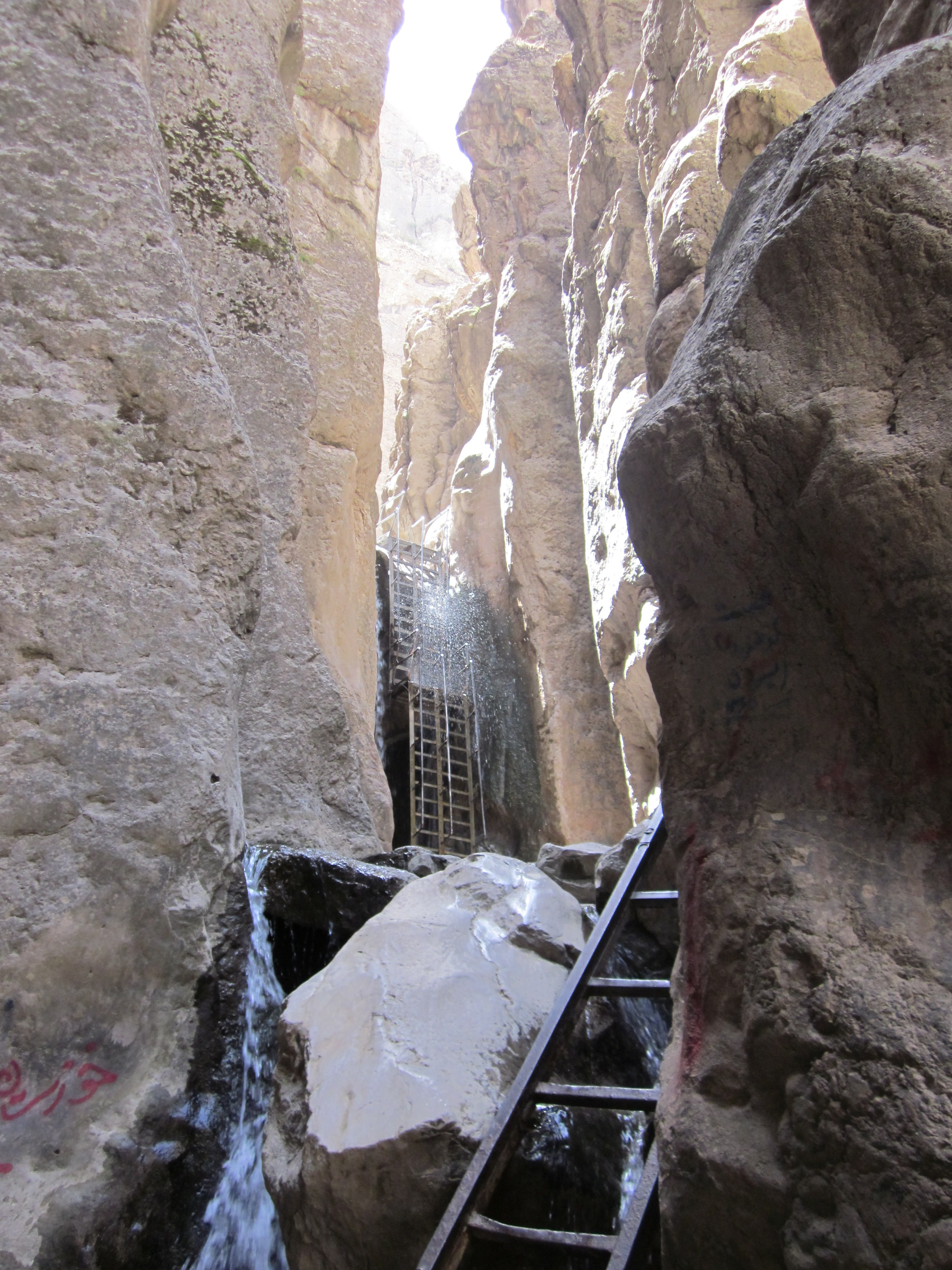 Gharasoo Waterfalls near Kalat, Razavi Khorasan Province, Iran.